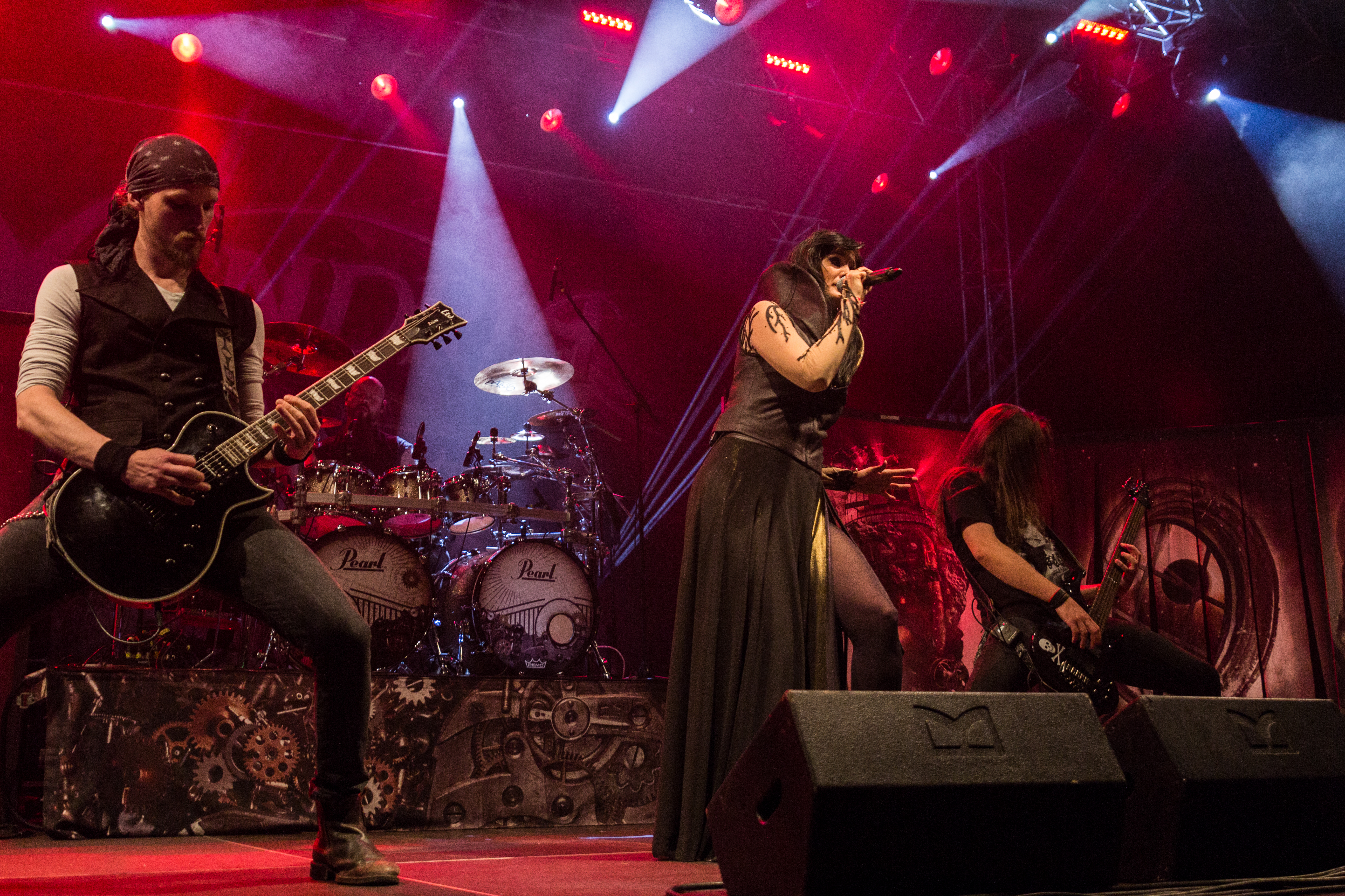 The German symphonic metal band Xandria at the Wave-Gotik-Treffen 2017 in Leipzig/Germany (Venue Kohlrabizirkus).